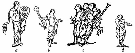 A composite of four drawings from the Utrecht Psalter showing the evolution of the cithara into the guitar. The images in order left to right are from Psalm 150, Psalm 42, Psalm 145, and Psalm 80.